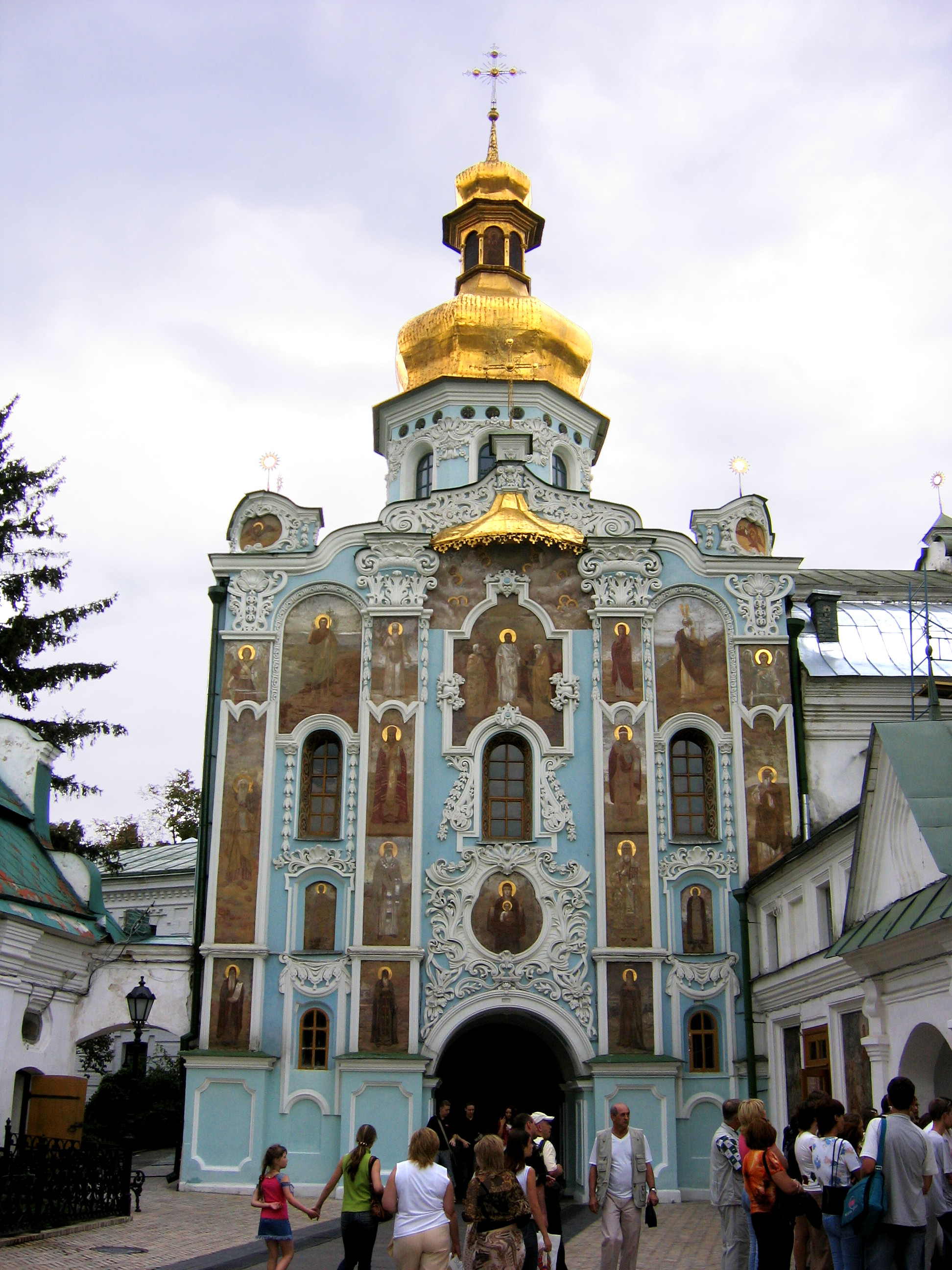 Kiev Pechersk Lavra (Kiev, Ukraine)